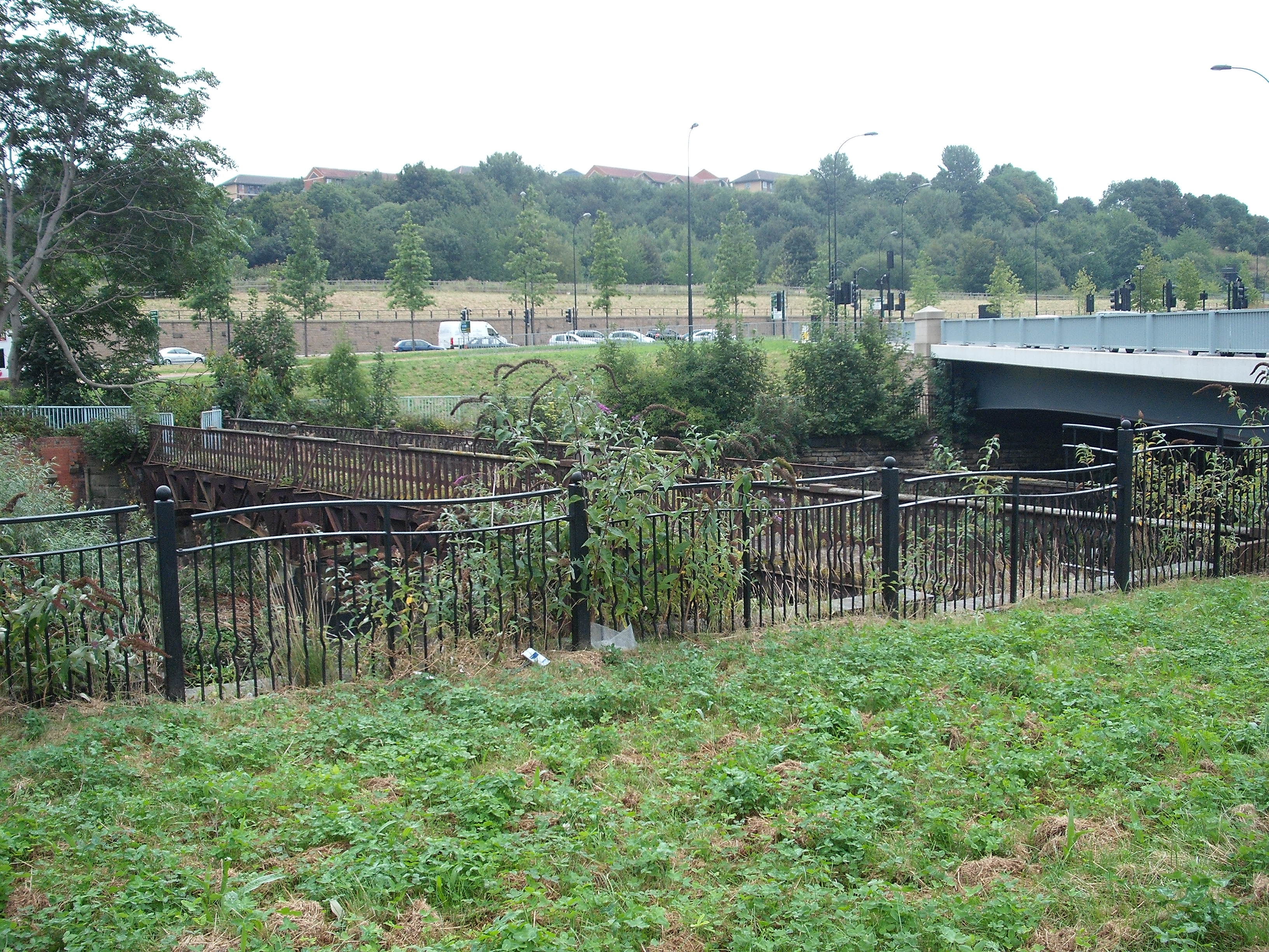 Iron footbridge built at the Milton Ironworks, Elsecar. A final partial rebuild in 1921 shows that some substantial replacement work was done by "J. Butler & Co Ltd at the Stanningley Ironworks in Leeds. The existing bridge was eventually superseded by the nearby Borough Bridge but has nonetheless remained in place because it also carries a major water pipe over the river. (Information courtesy of David Hallam-Jones via )